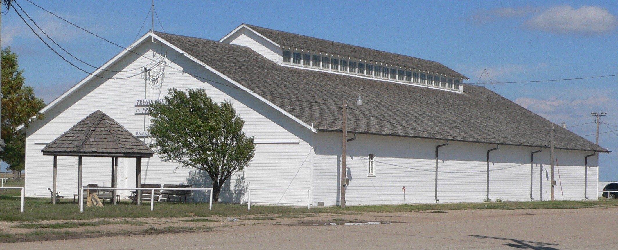 Exhibit building at Trego County fairgrounds, on east side of U.S. Highway 283 in WaKeeney, Kansas; seen from the southwest.